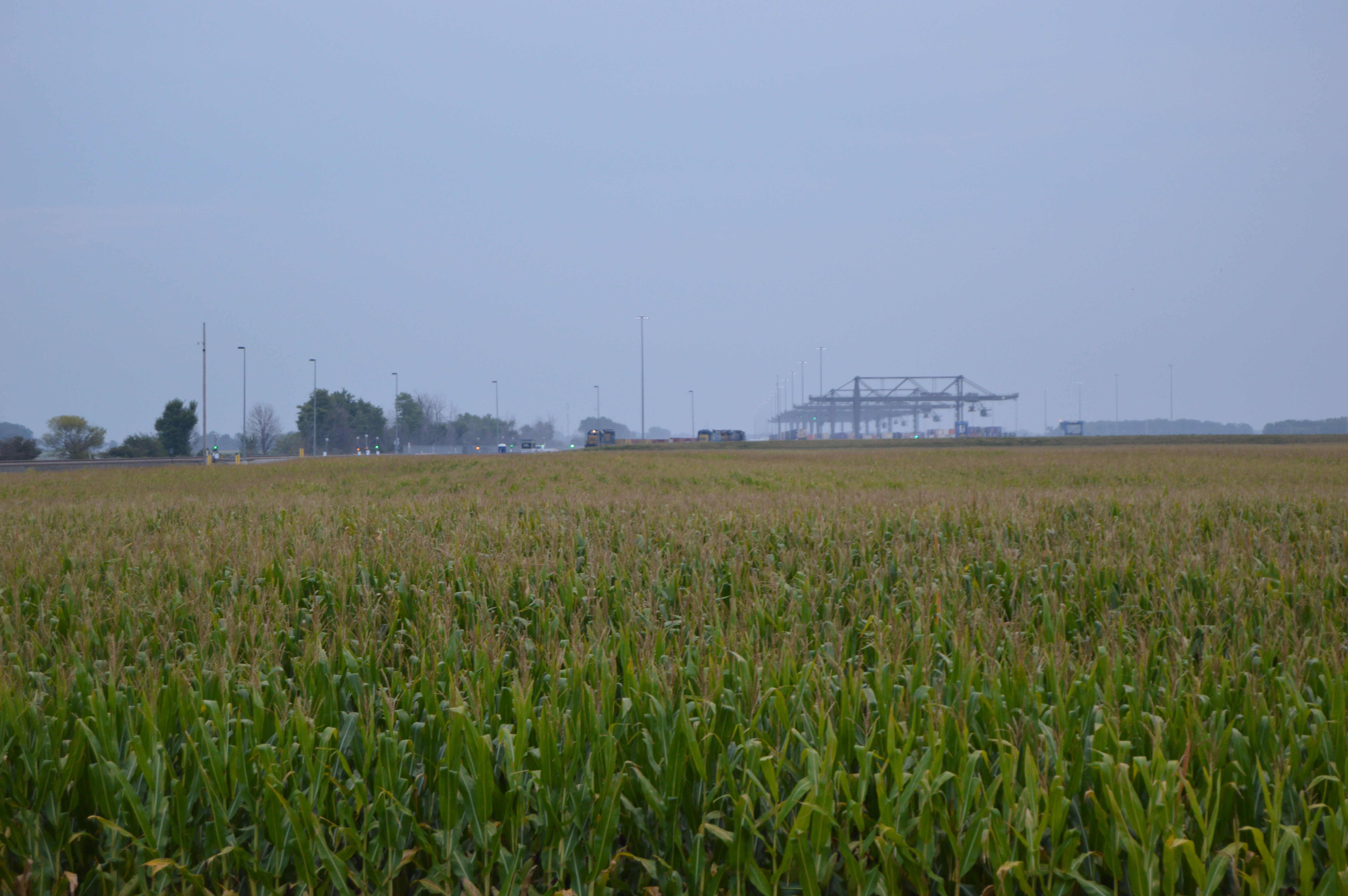 Cornfields on the western edge of Henry Township, Wood County, Ohio, United States, seen looking east from the junction of Hoytville and Range Line Roads. In the distance are some of the structures for the North Baltimore Yard, a large intermodal railyard operated by CSX.